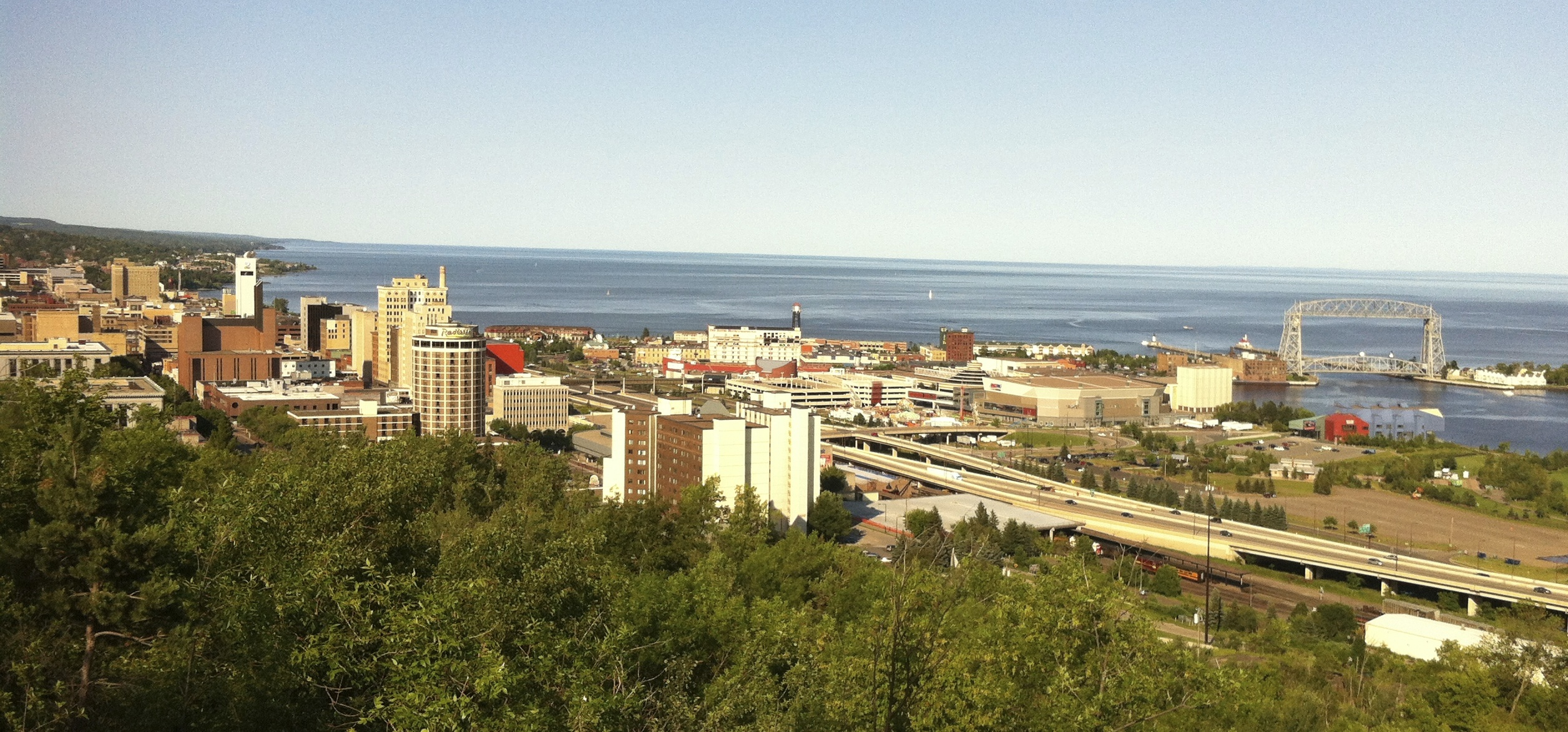 Downtown Duluth looking out towards north shore and Lake Superior. Taken in 2012.